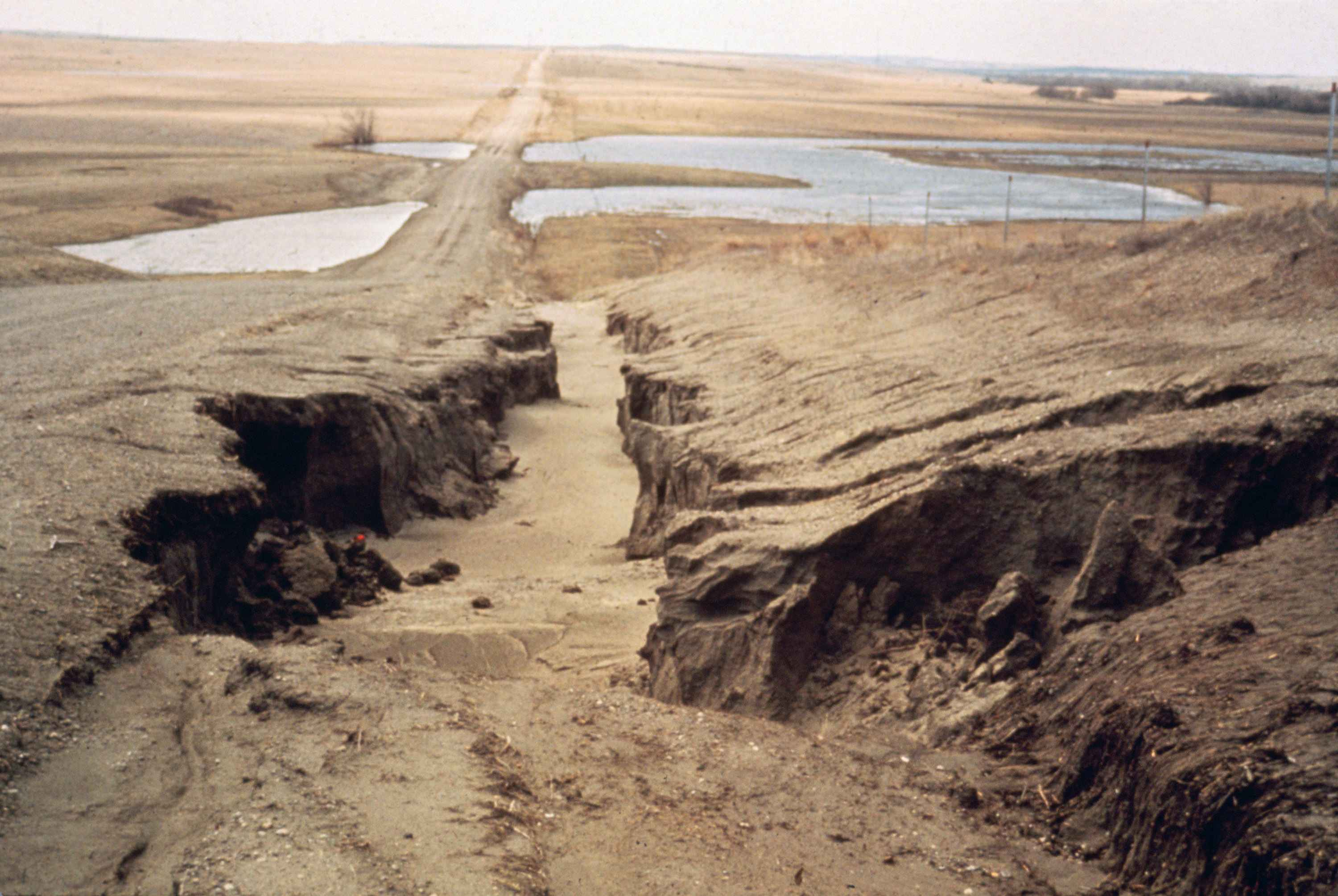 Image title: Erosion of earth Image from Public domain images website